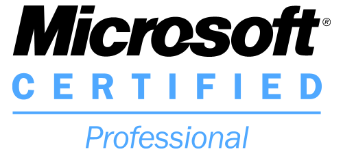 Microsoft Certified Professional